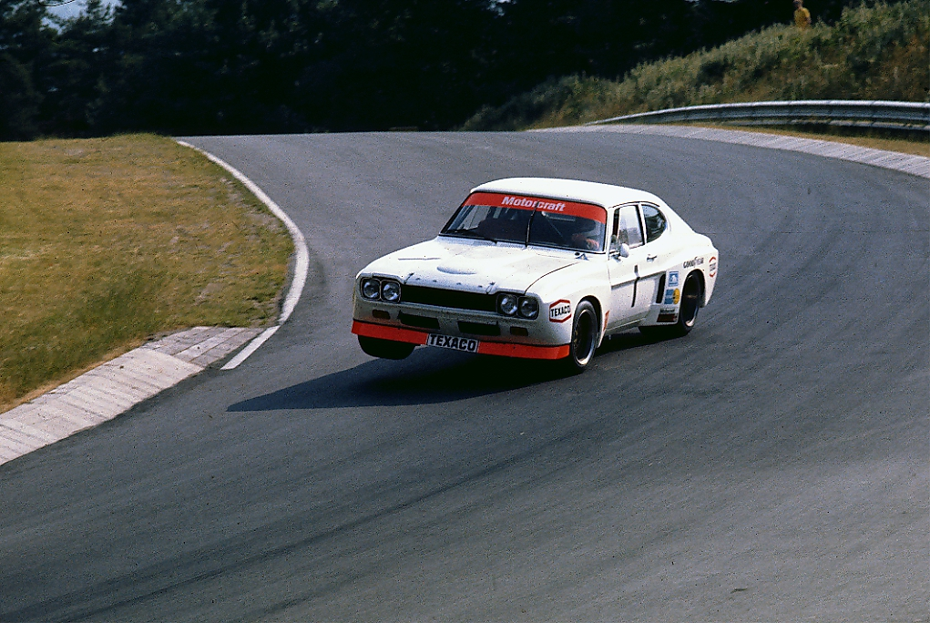 Ford Capri (Jackie Stewart) in practice for the 1973 6 Hours of Nürburgring